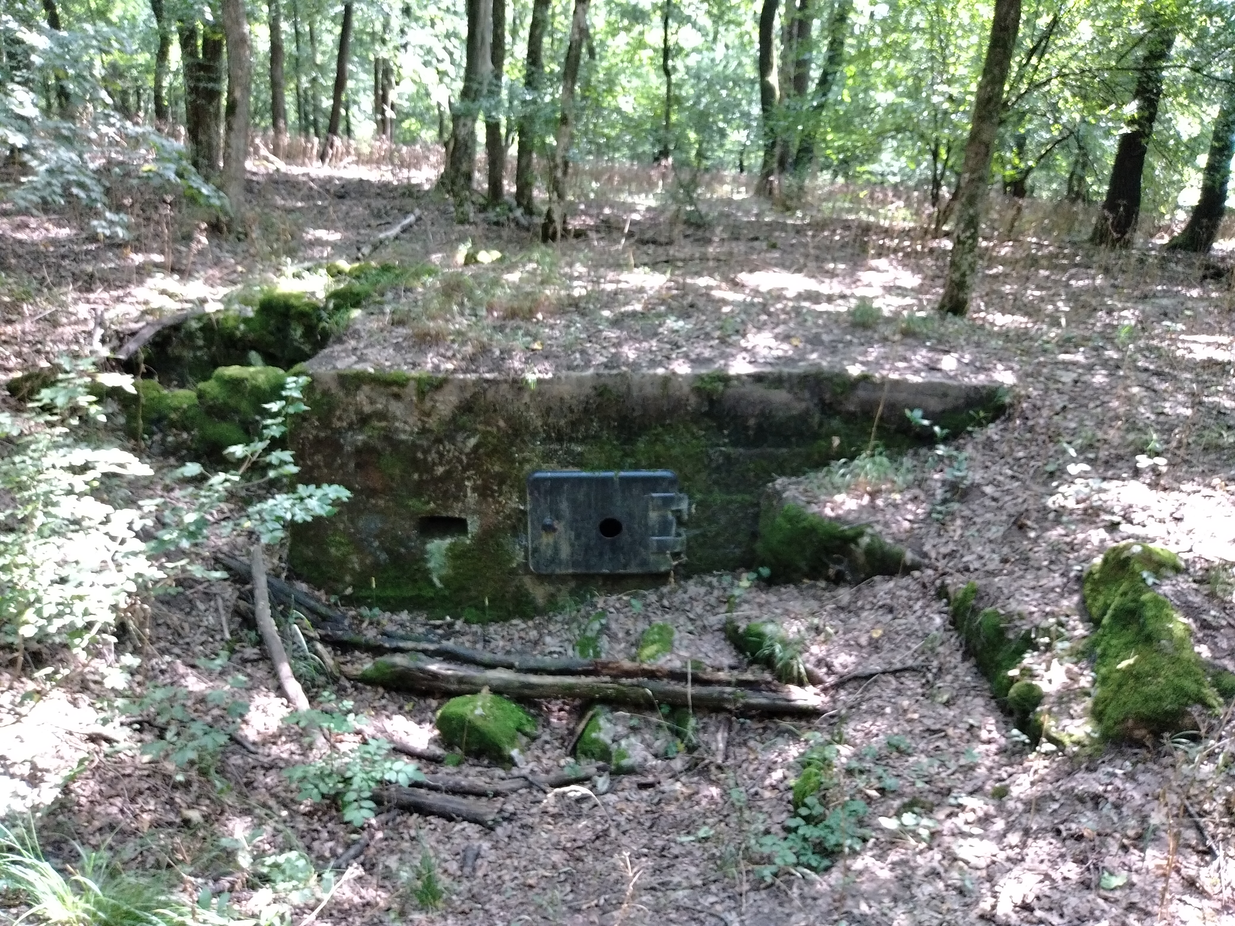 Entrance of Lengyel Cave in Tatabánya.